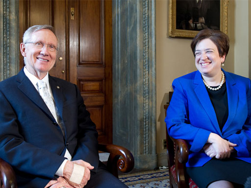 Senate Majority Leader Harry Reid (D-NV) meeting with Supreme Court nominee Elena Kagan.